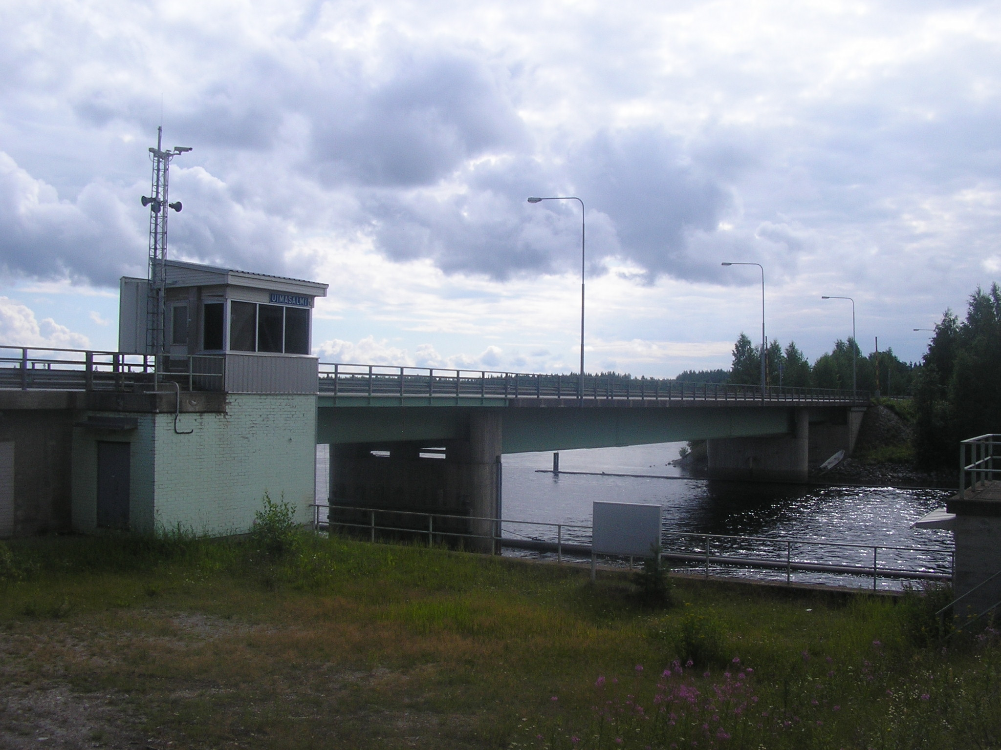 Uimasalmi road bridge carrying National road 73 in Joensuu, Finland